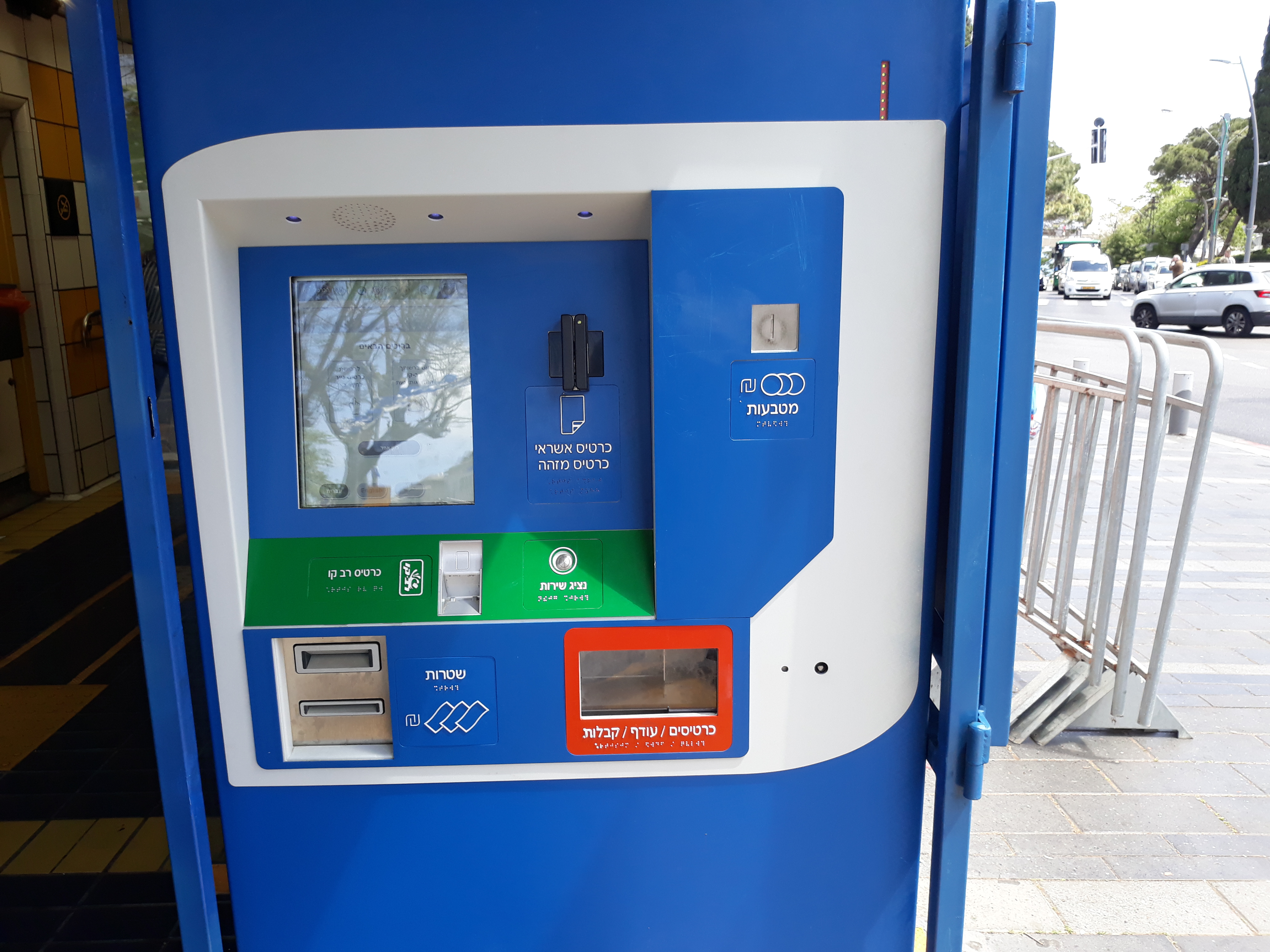 Carmelit subway in Haifa after its reopening in 2018